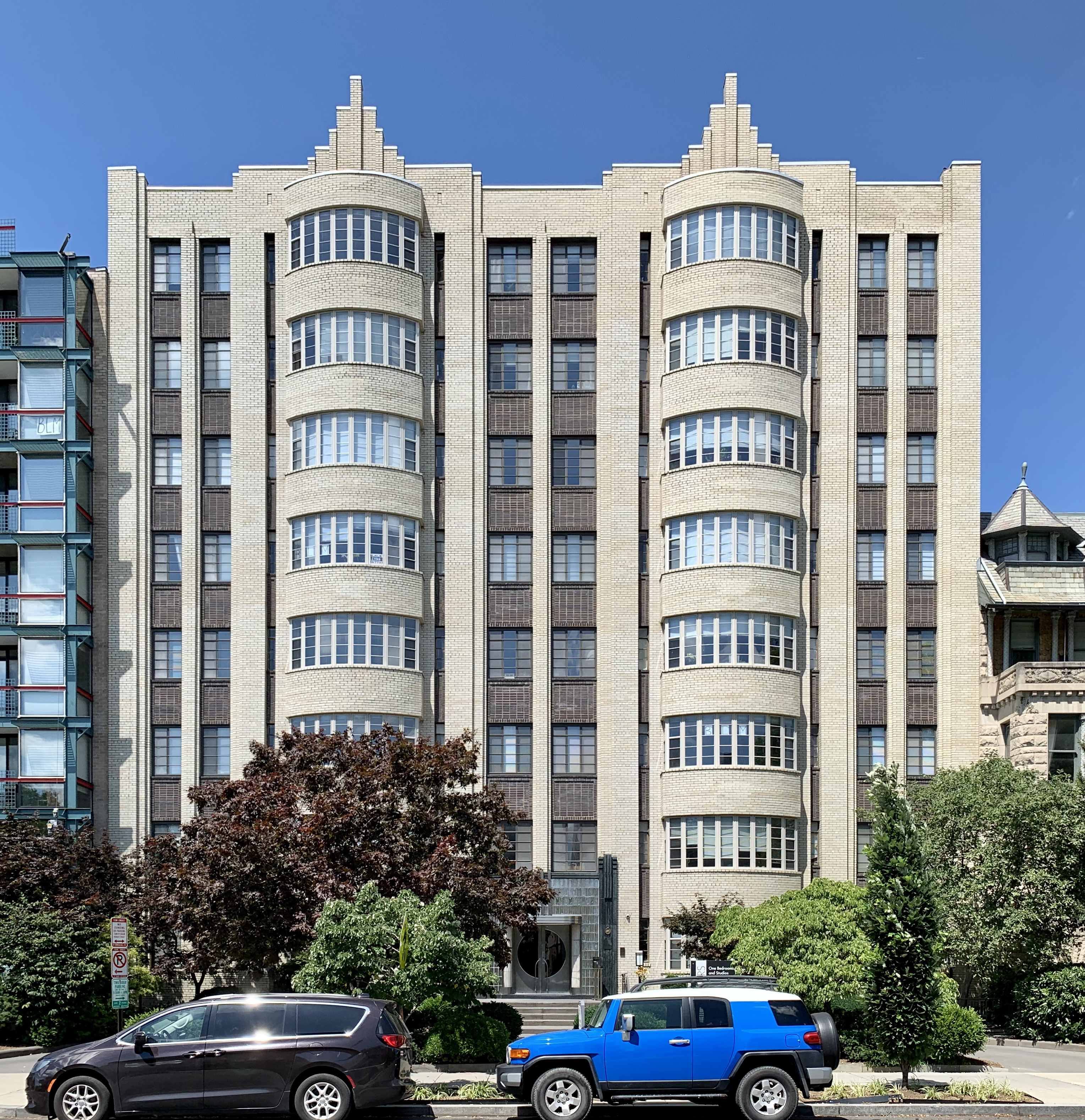 The Hightowers Apartments located at 1530 16th Street NW in Washington, D.C. The Art Deco building was constructed in 1938 and designed by Alvin L. Aubinoe and Harry L. Edwards. The building is a contributing property to the Sixteenth Street Historic District.